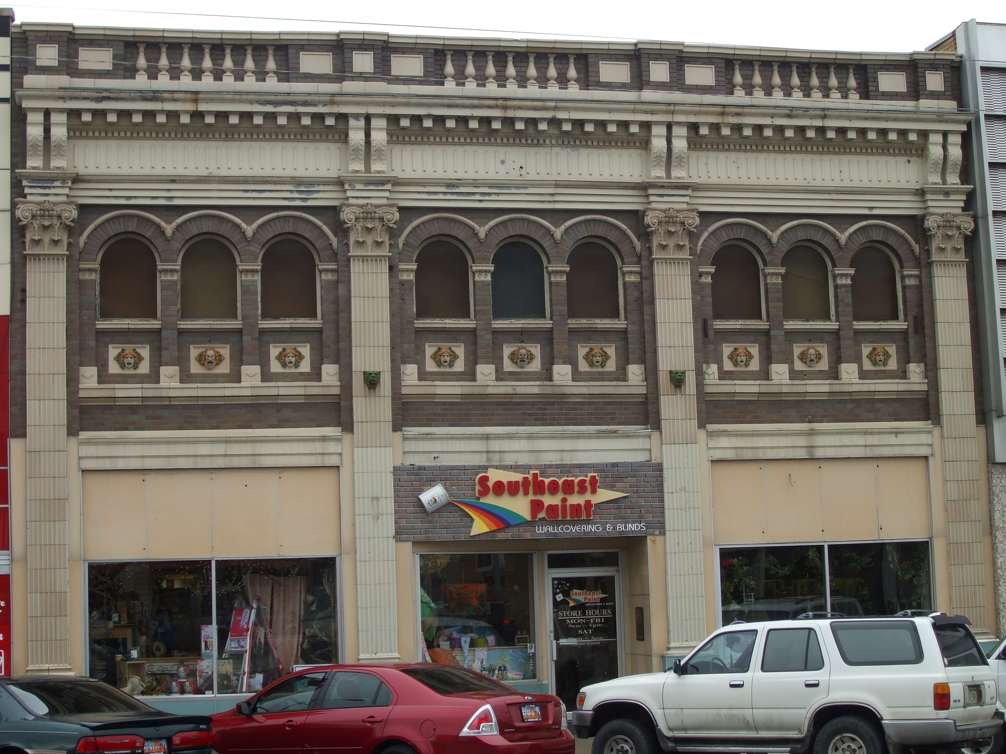 The Star Theatre, a historic building in Price, Utah, United States.